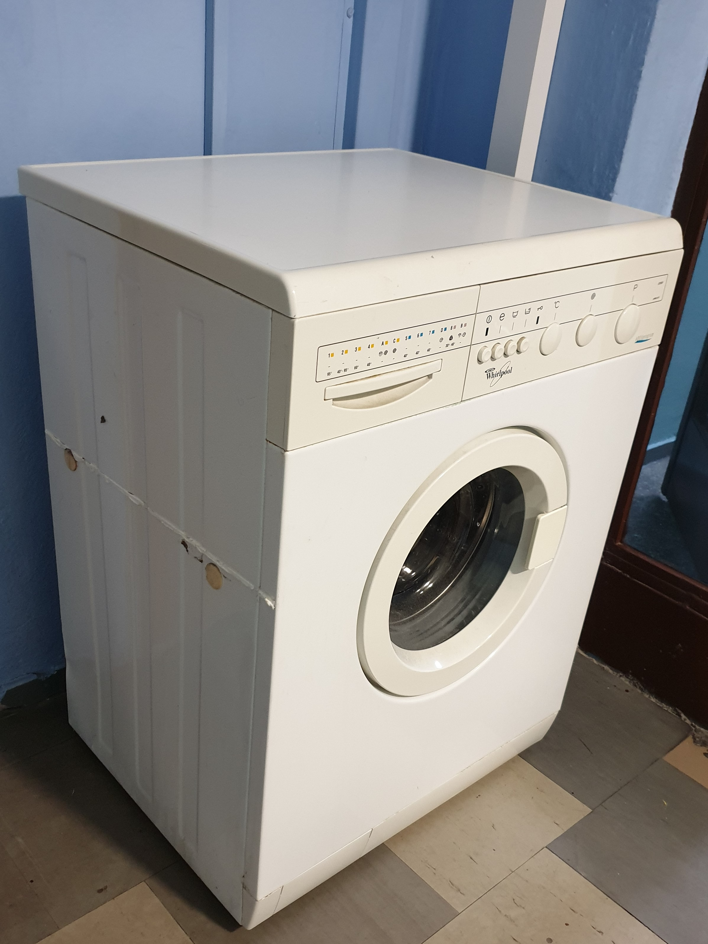 Whirlpool AWM 875 WH